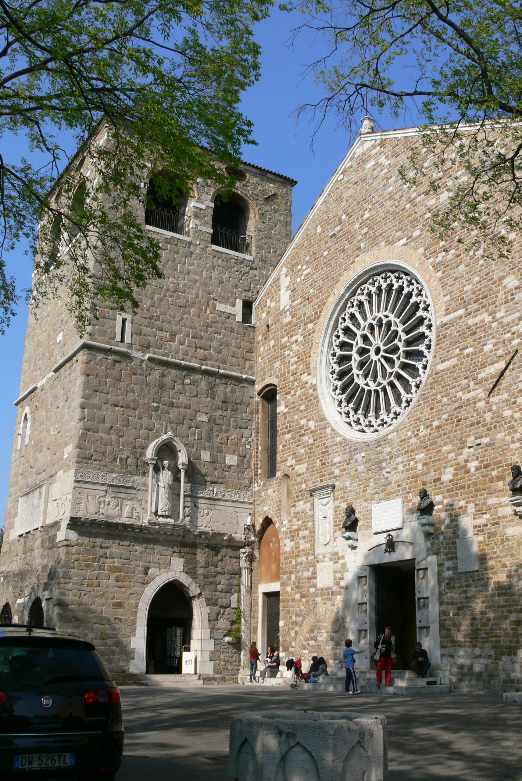 Trieste ( Italy ). Cathedral: Facade ( 14th century ) with bell tower.